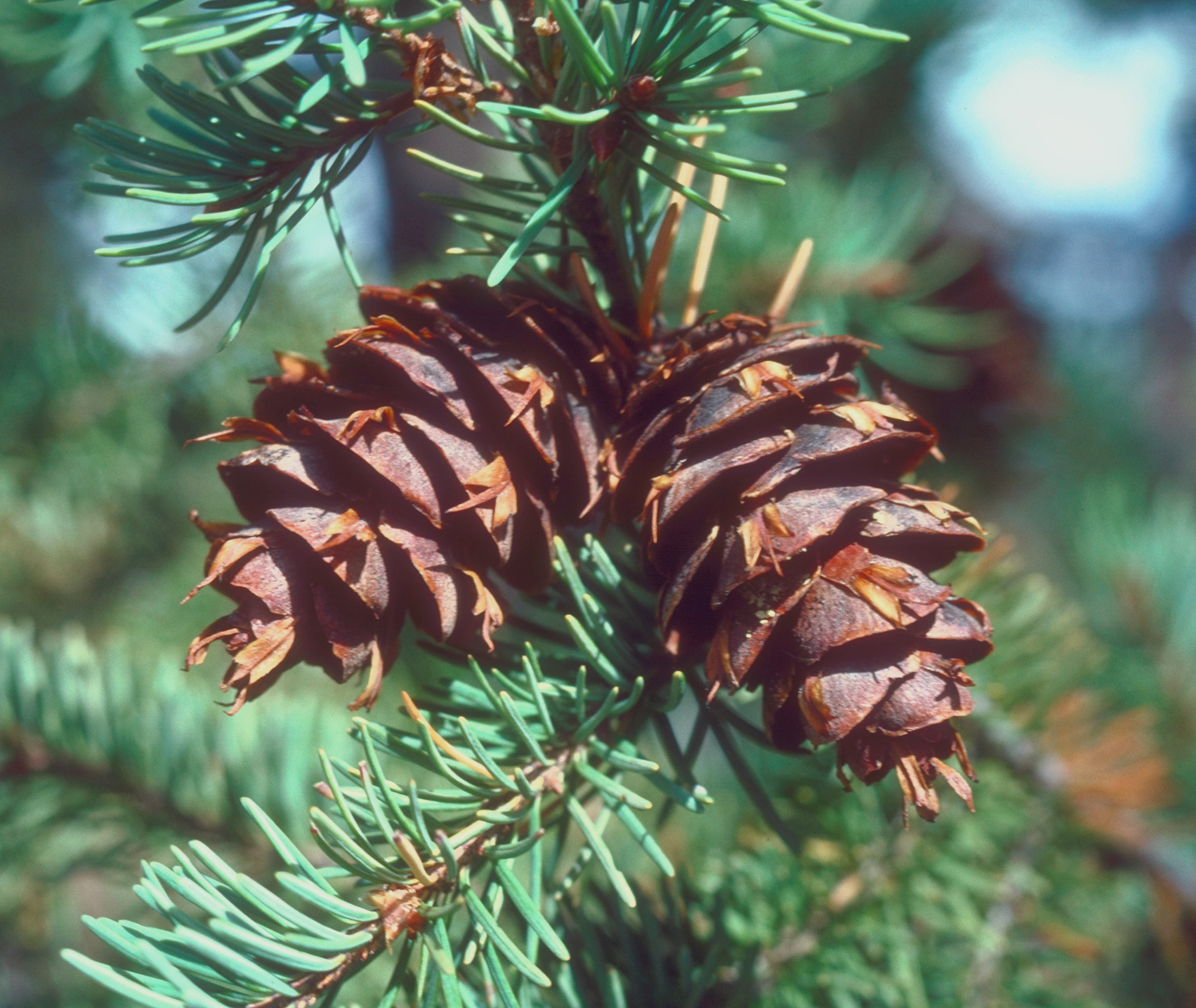 Pseudotsuga menziesii subsp. glauca foliage and cones. Rocky Mountains — Pike and San Isabel National Forests, south-central Colorado.